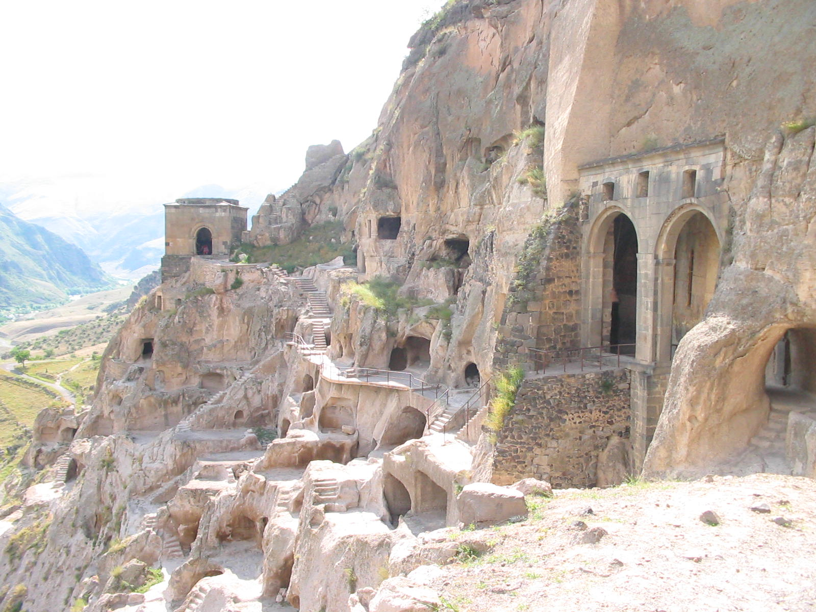 Vardzia in Georgia